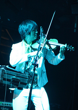 K. Ishibashi on stage with of Montreal, april 2011.